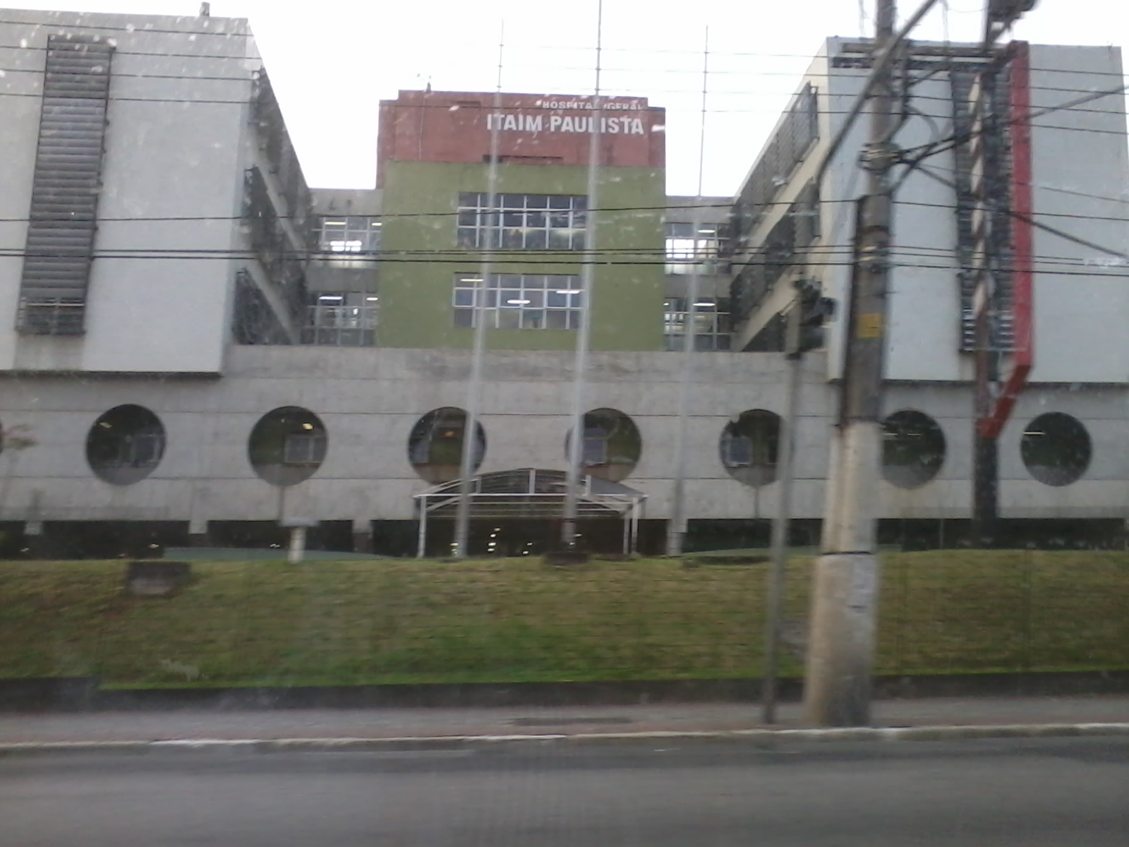 Hospital Geral of Itaim Paulista